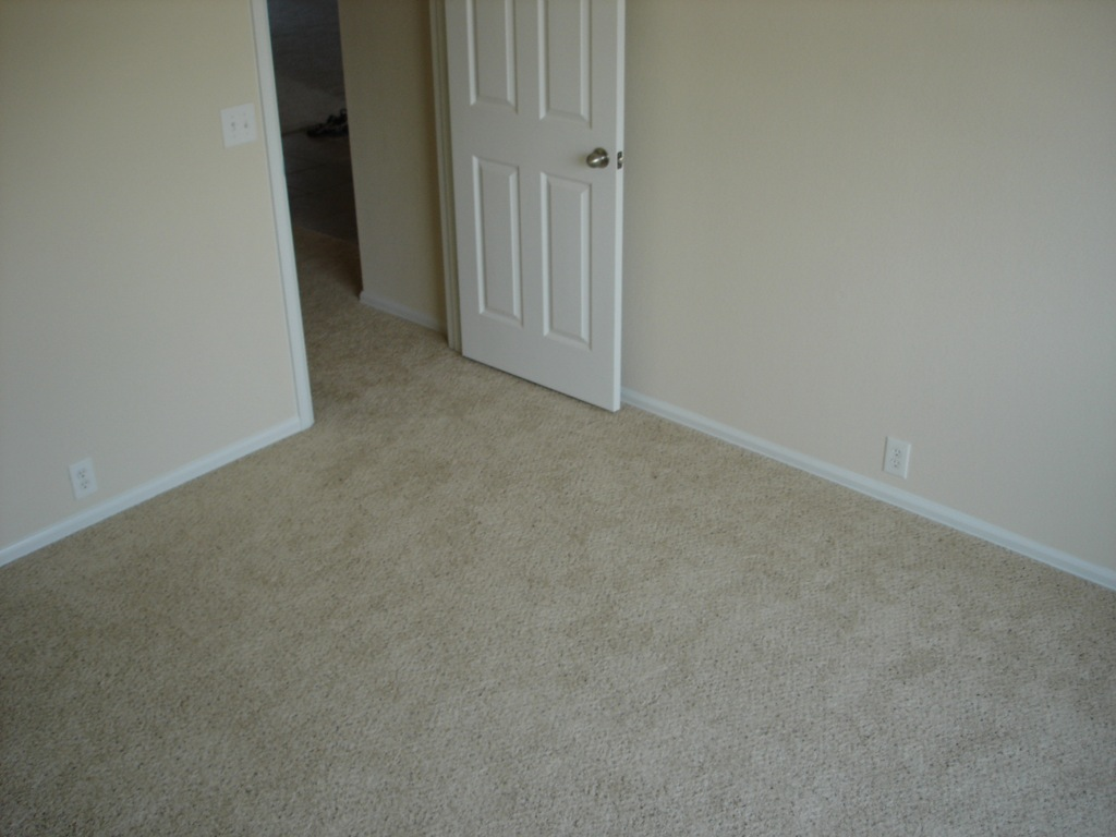 An example of a baseboard. Author: Andy Trommer License